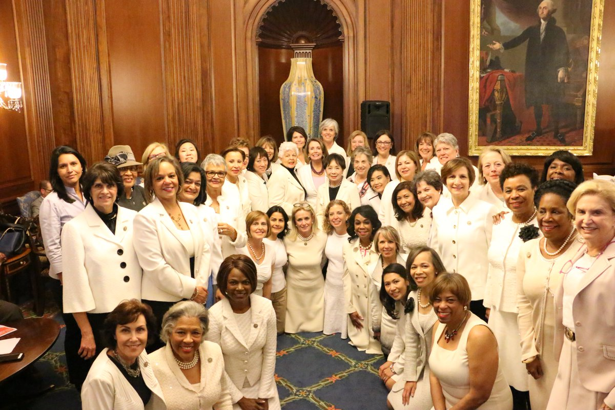 Congresswomen Pelosi joins her House Democratic Women Representative colleagues by wearing white in a powerful show of unity to honor women’s suffrage – a symbol of purity supporting the defense on women’s rights.